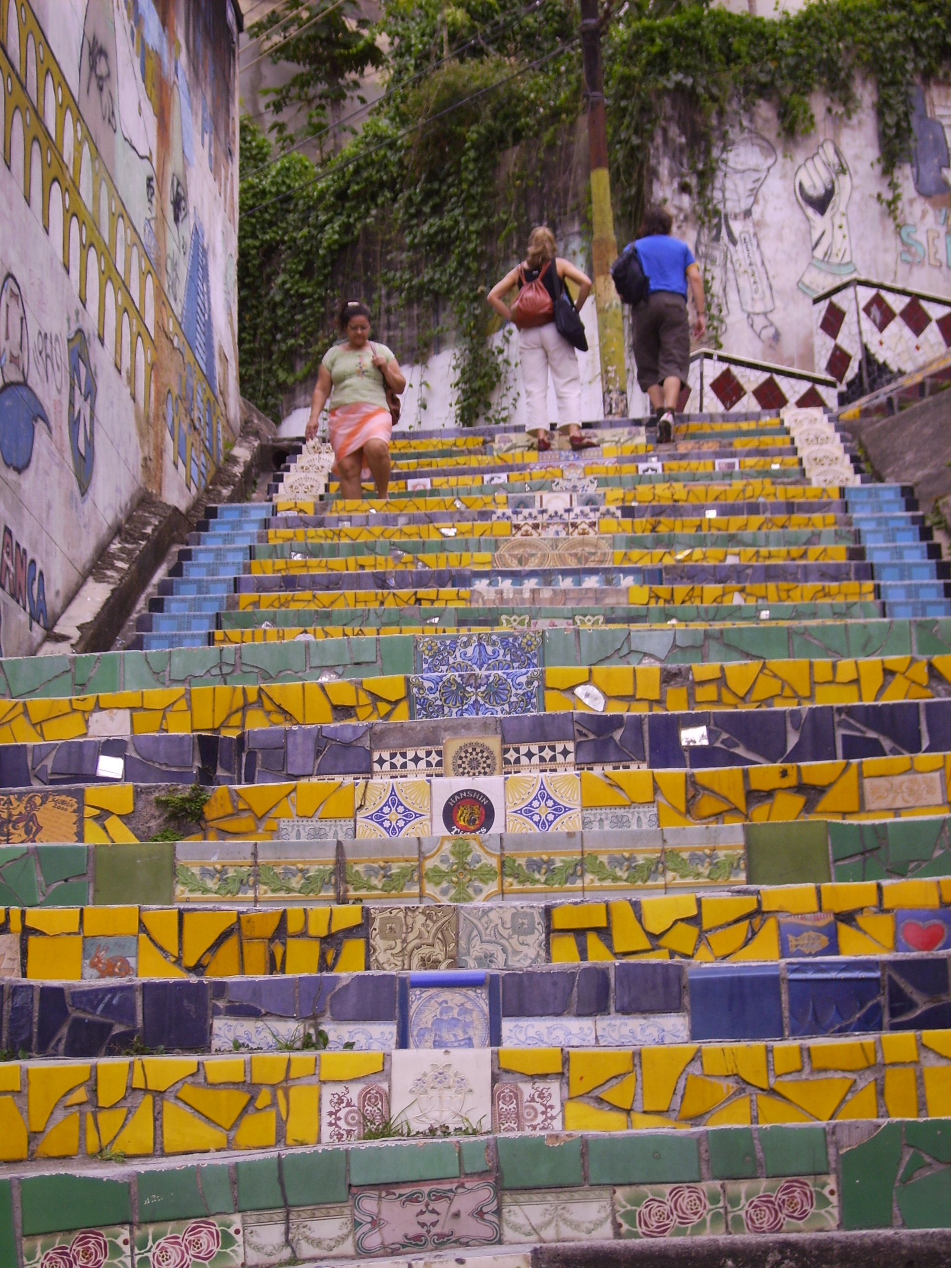 stairs in the lapa district, Rio de Janeiro, Brazil. View of tiles.